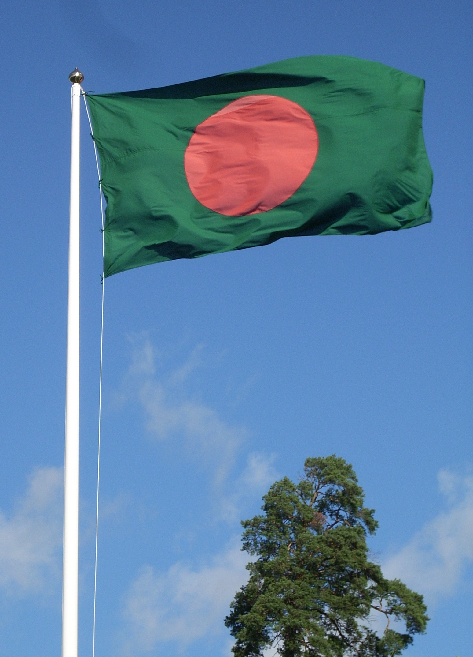 Flag of Bangladesh